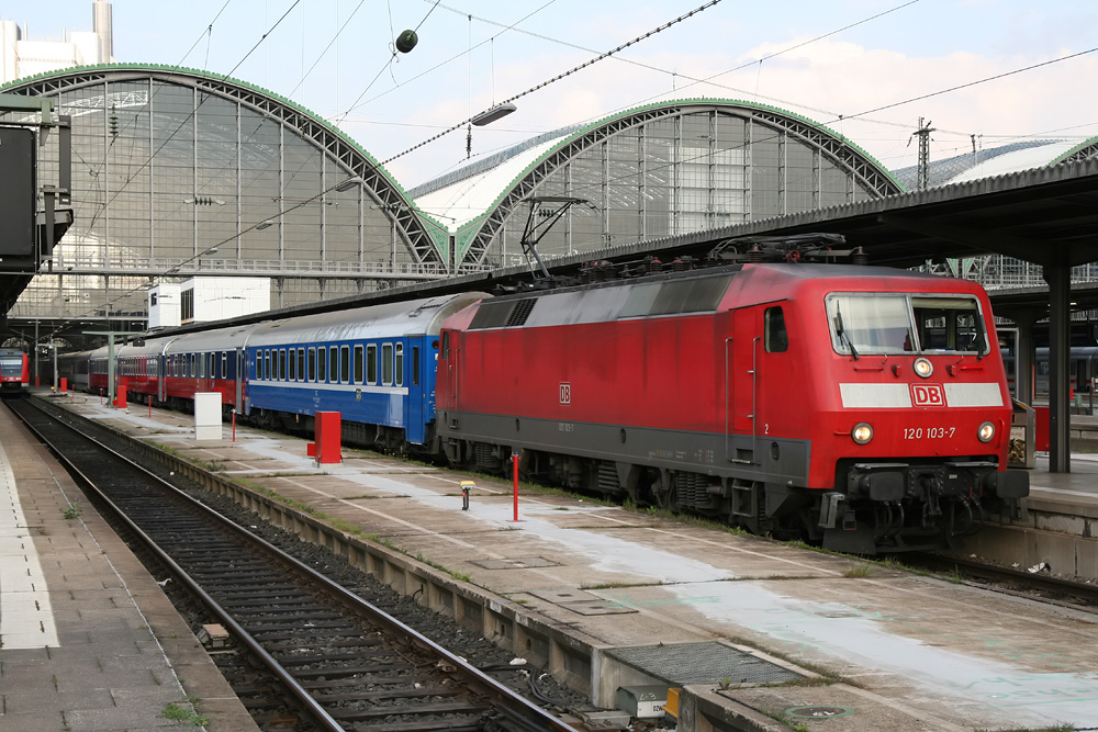 The EuroNight train Jan Kiepura at the main railway station of Frankfurt am Main, Germany